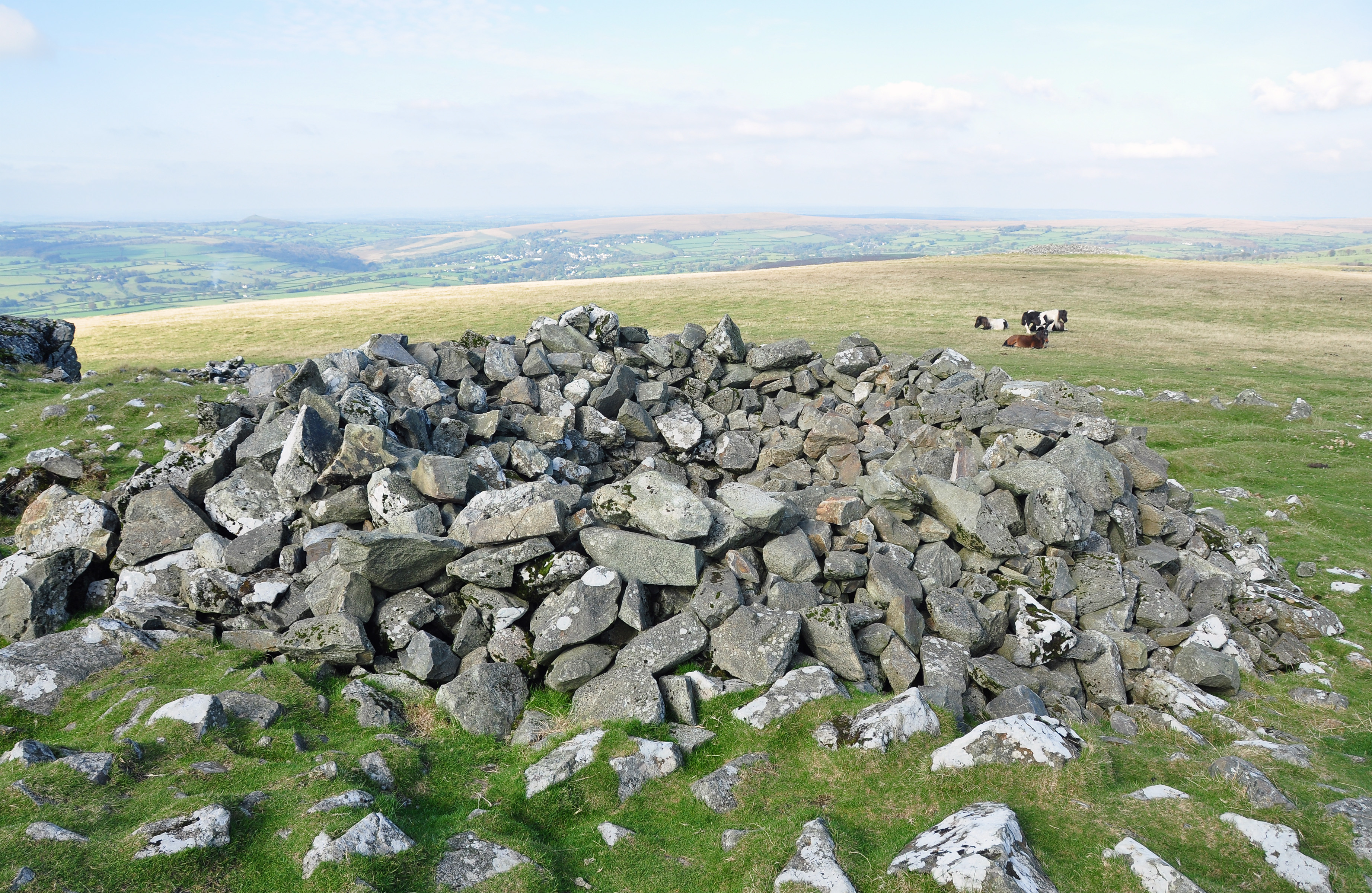 A cairn (built into a walker's shelter) at the summit of Cox Tor, next to the trig point. Brent Tor is visible on the horizon